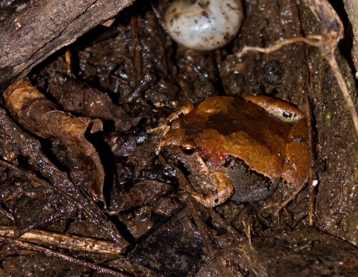 Microhyla okinavensis at Kohama Island, Yaeyama Islands, Japan. ヒメアマガエル